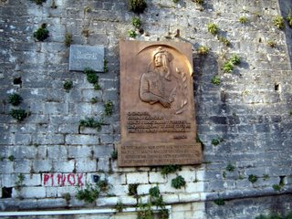 The Byron's egravened rock in Tepelene.